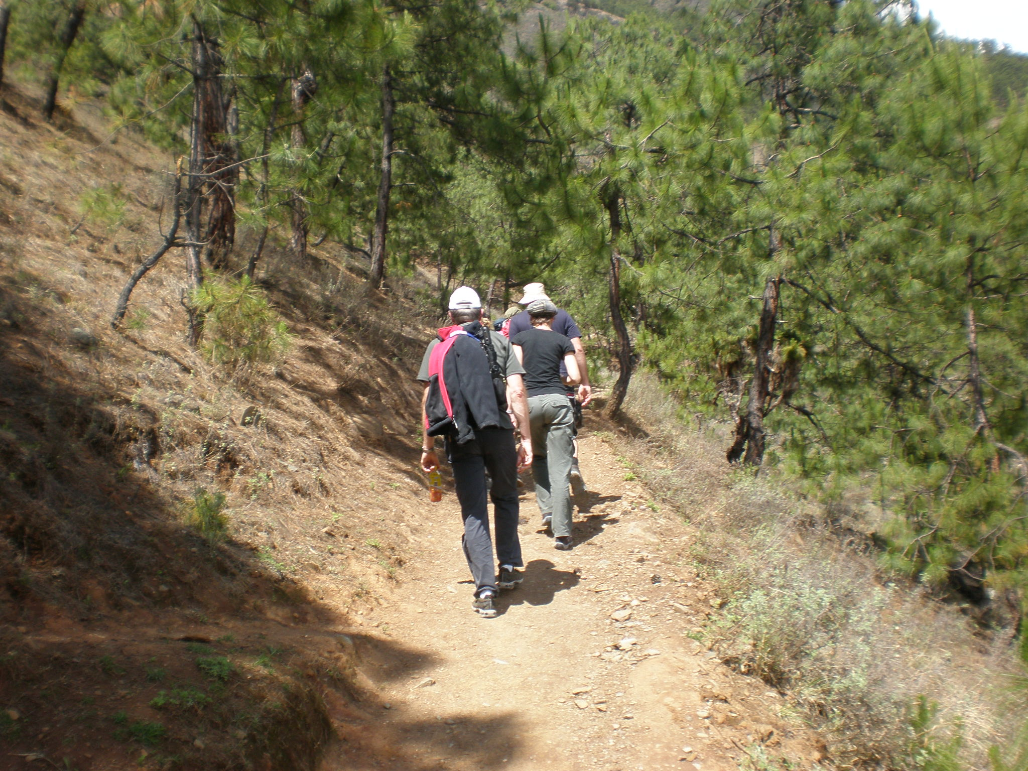 A section of the Tiger Leaping Gorge trail running from Qiatou to Walnut Grove in Yunnan, PRC, about more than an 115 minutes' walk out of Qiatou. At 20 km, it can be hiked in good weather in 2 days.